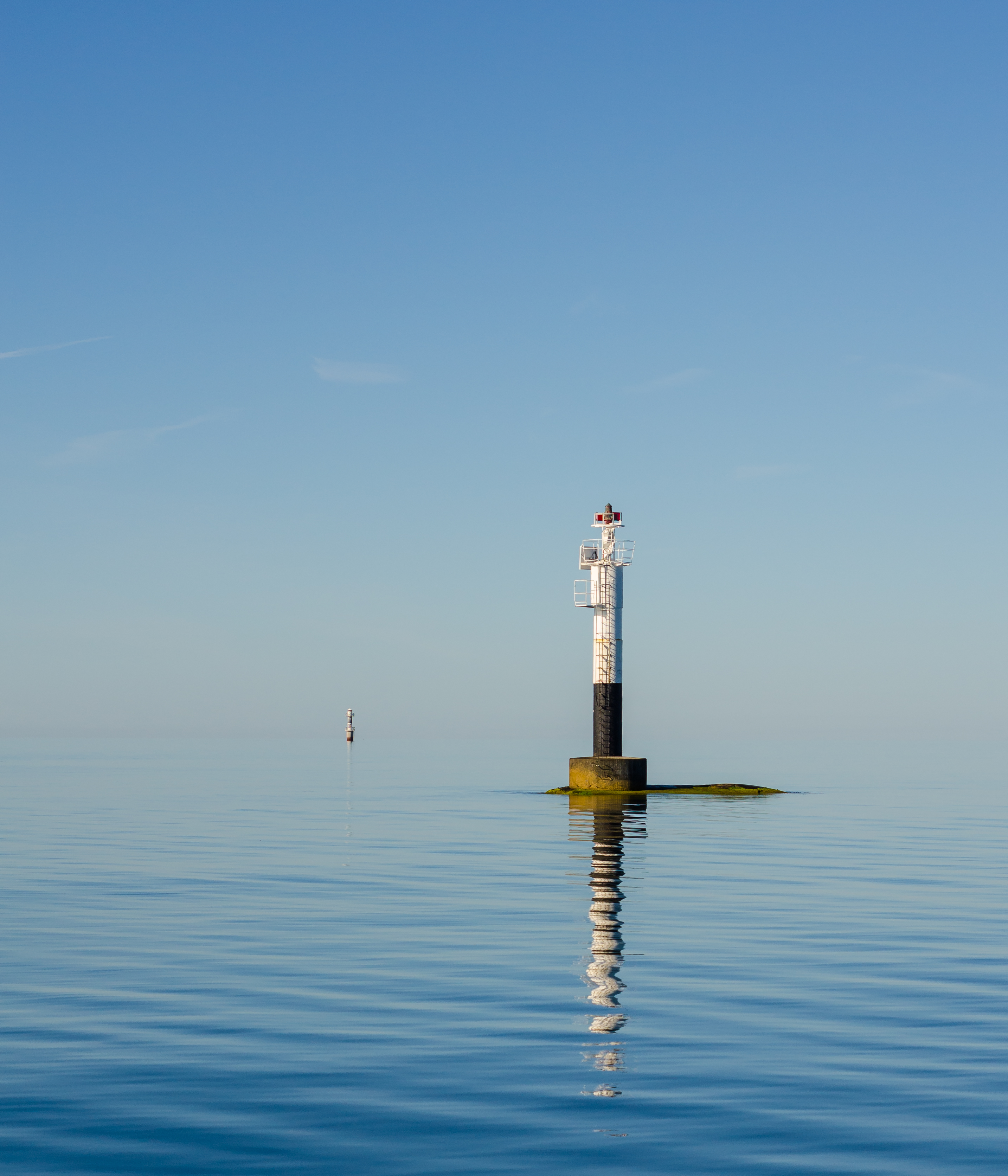 Grisblänkan lighthouse outside Öja island, Stockholm archipelago. In the background, Tiljandersknall lighthouse.